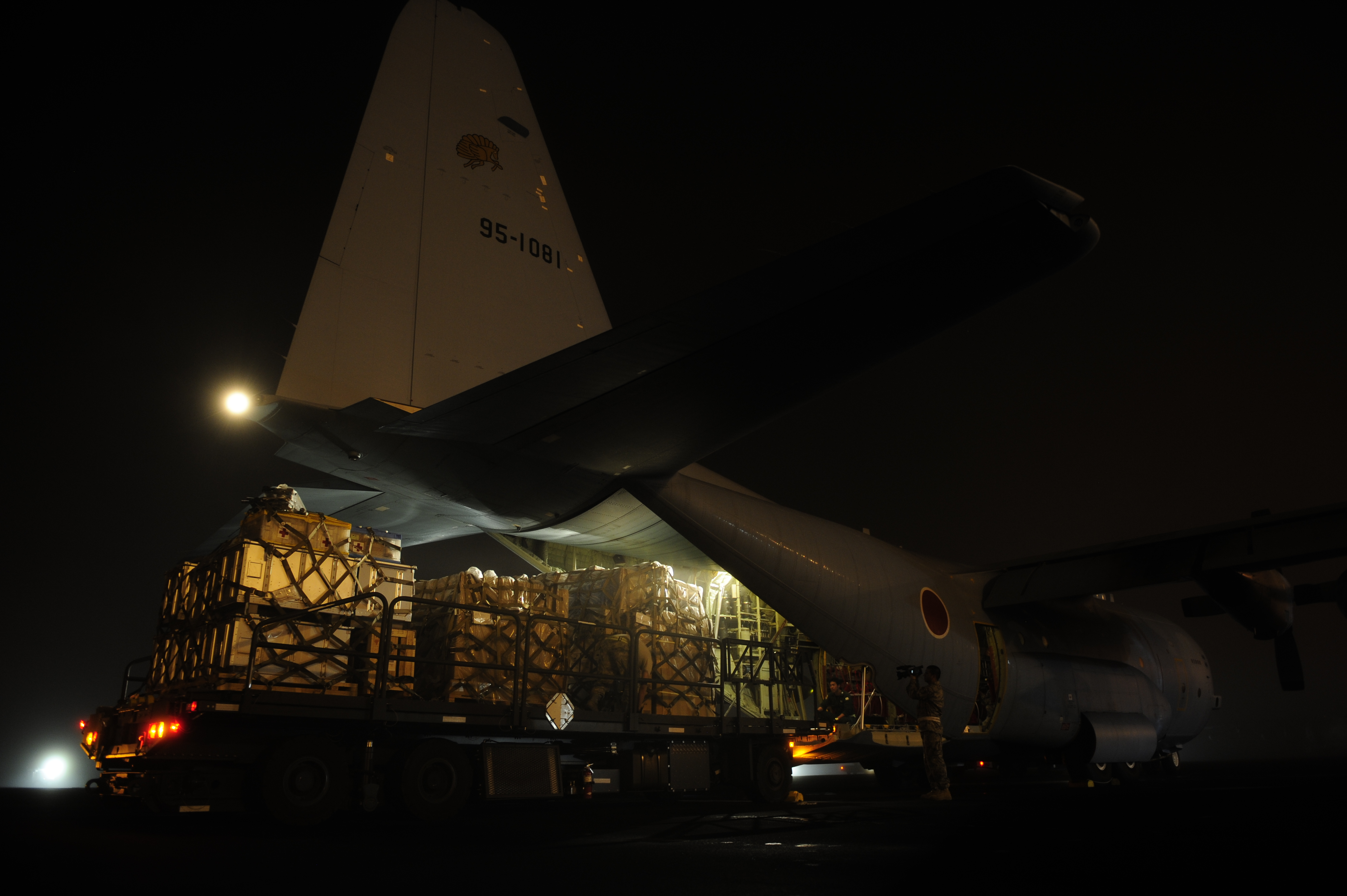 U.S. Airmen with the 70th Aerial Port Squadron, along with Japan Air Self-Defense Force personnel, load pallets onto a Japanese C-130 Hercules aircraft bound for Haiti from Homestead Air Force Base in Miami, Fla.